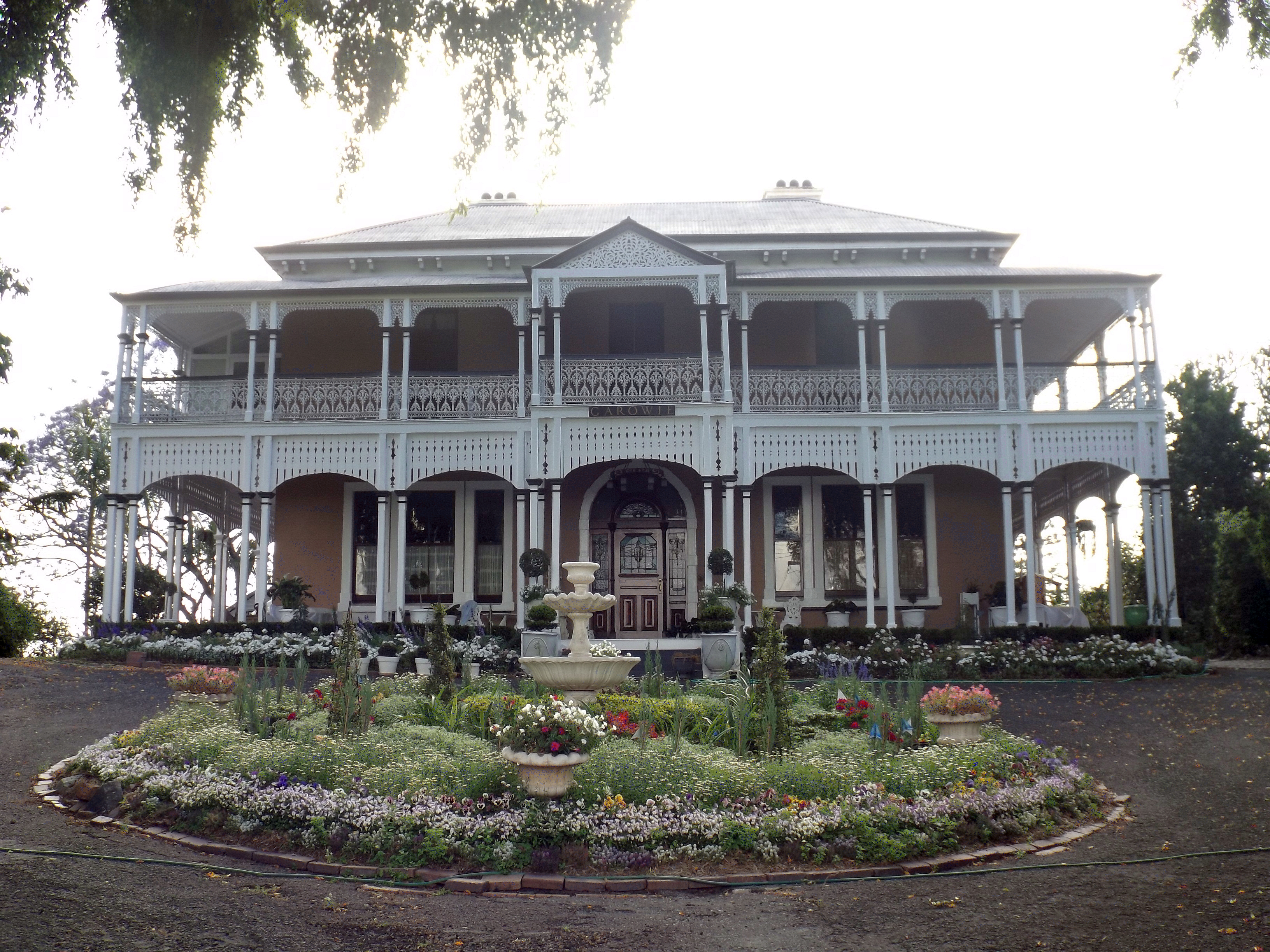 Photo of the Garowie residence in Eastern Heights, Ipswich City, Queensland, Australia.